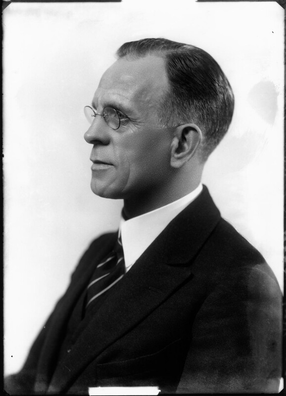 Henry Proctor